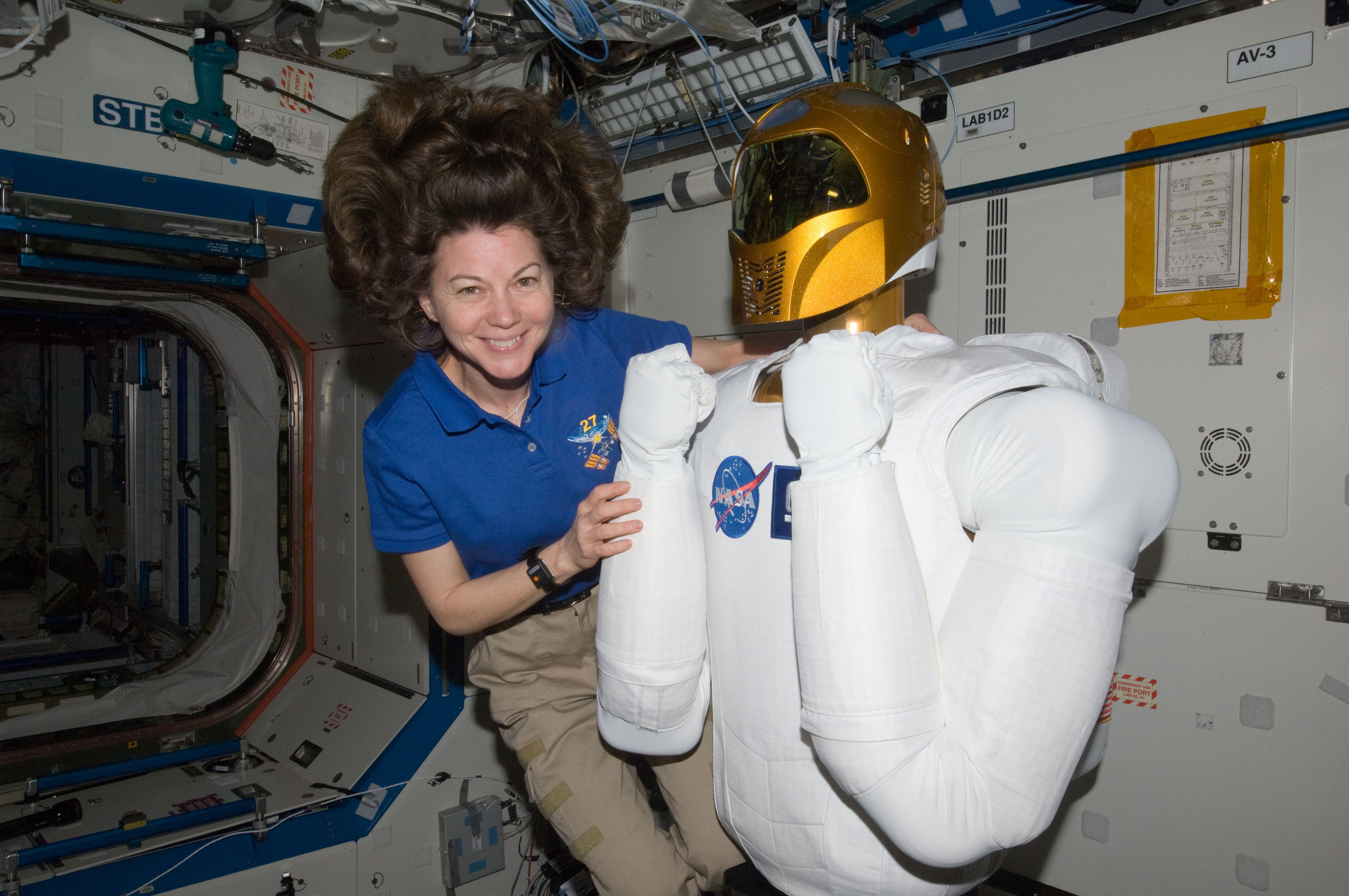 ISS026-E-034297 (15 March 2011) --- NASA astronaut Cady Coleman, Expedition 26/27 flight engineer, poses with Robonaut 2, the dexterous humanoid astronaut helper, in the Destiny laboratory of the International Space Station.